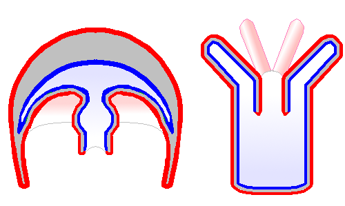 Tow basic body forms of cnidaria: medusa and polyp. Ref: Ruppert, E.E., Fox, R.S., and Barnes, R.D. (2004) Invertebrate Zoology (7th ed.), Brooks / Cole, pp. 111-124 ISBN: 0030259827.